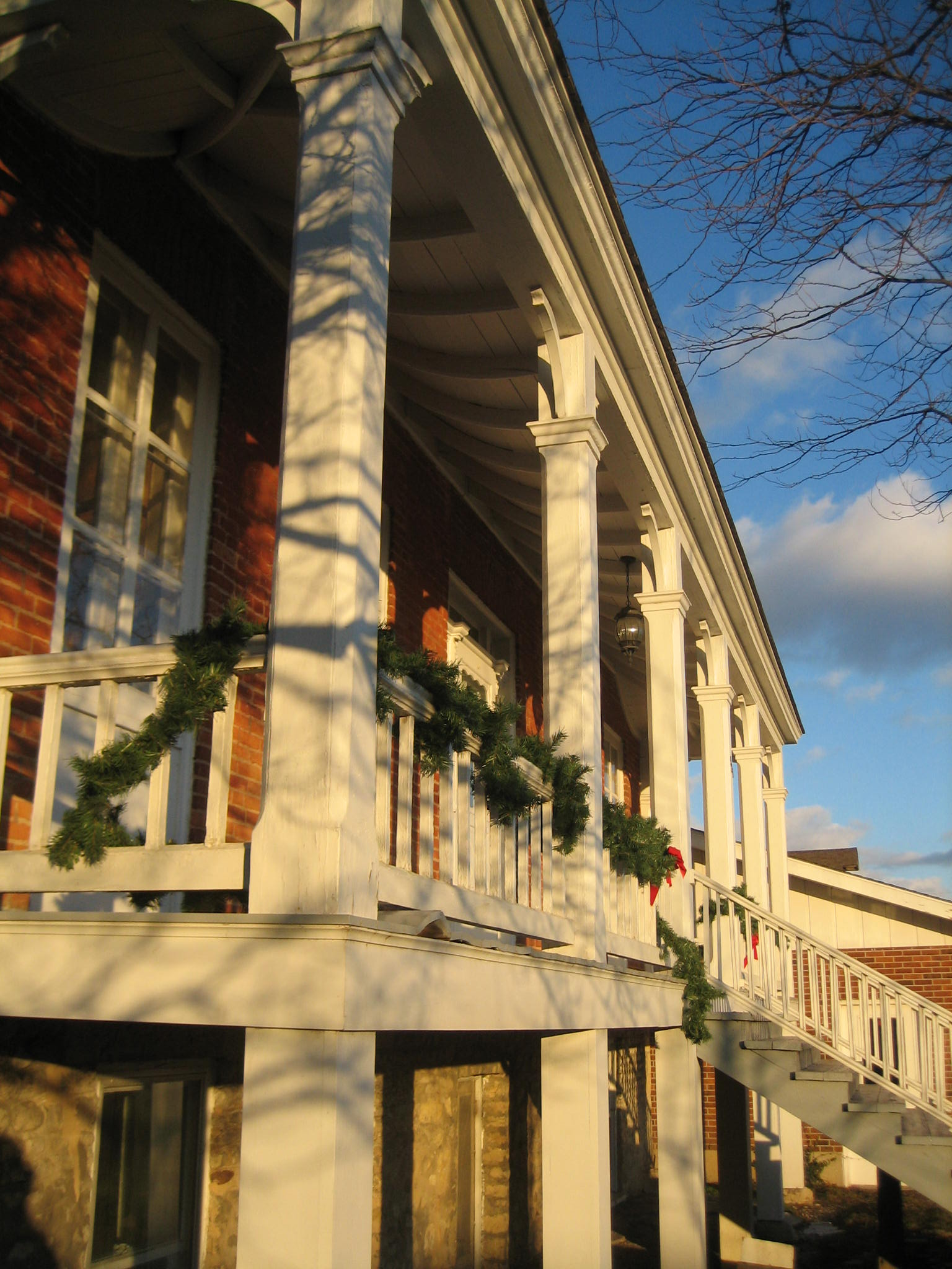 Joseph F. Glidden House, DeKalb, Illinois, National Register of Historic Places.